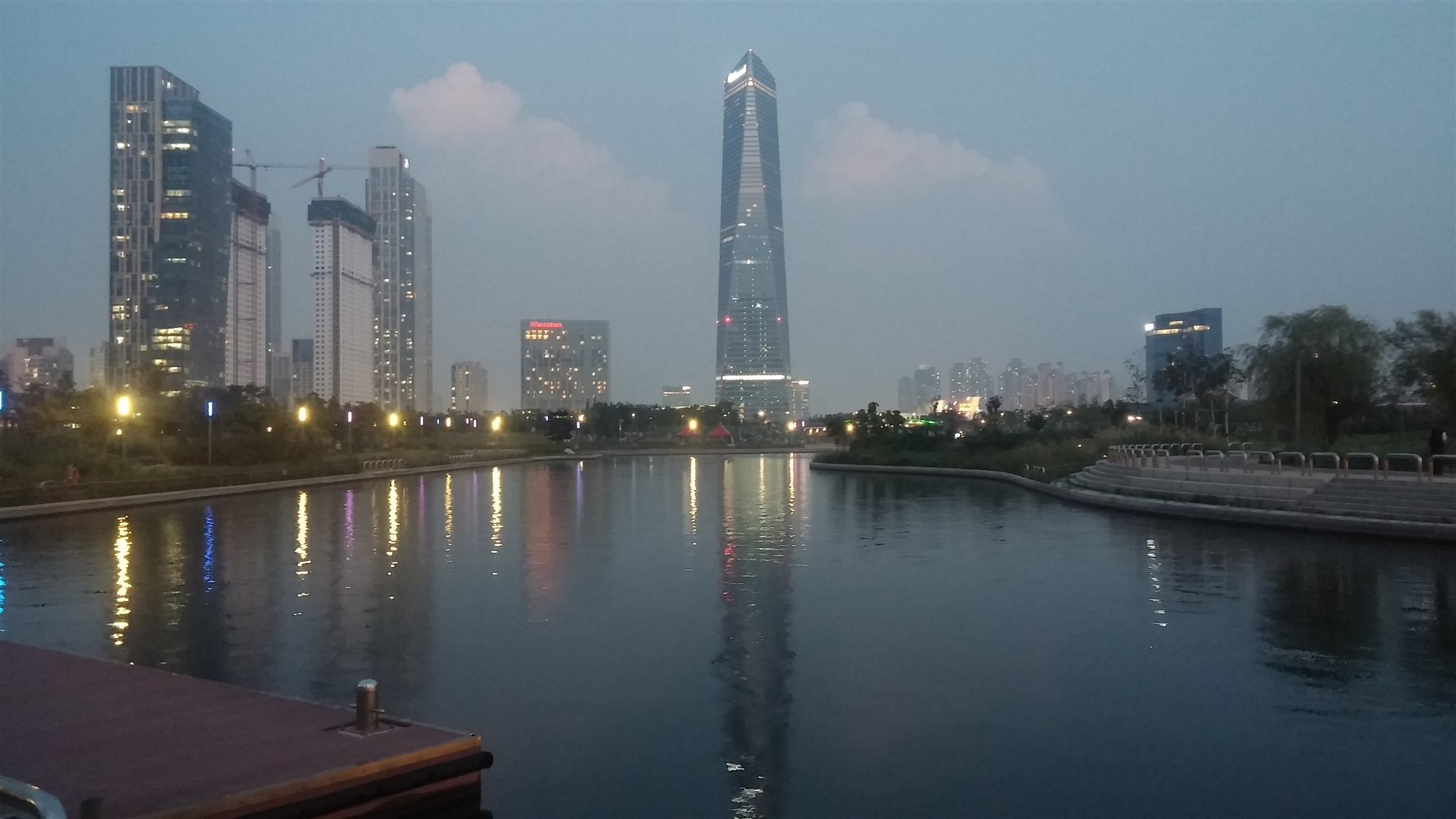 Central Park and the Convensia at Night, Songdo IBD, Incheon, Korea